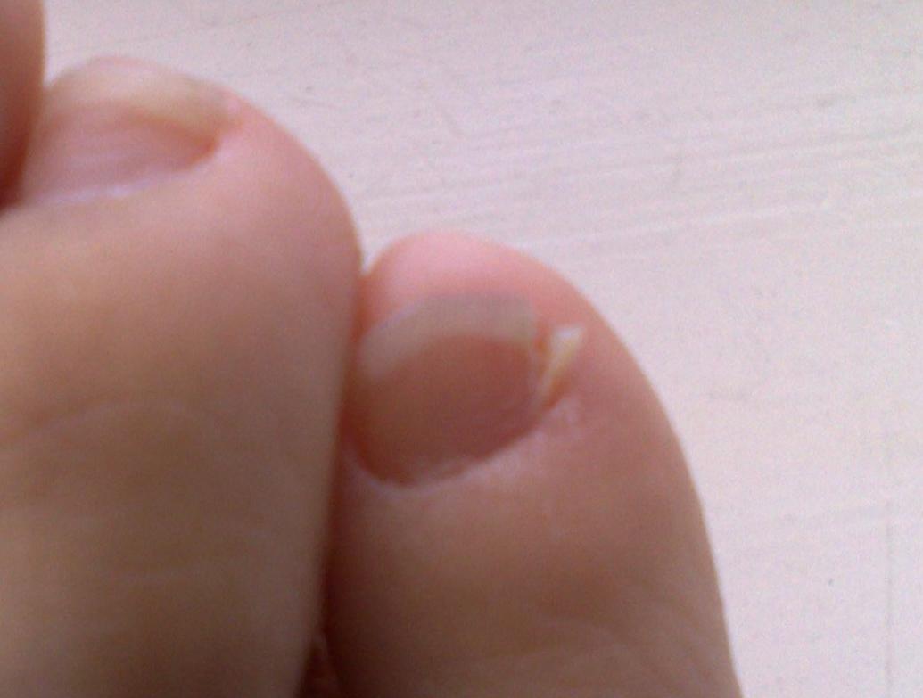 Inherited accessory nail of the fifth toe on the smallest toe on the right foot, uncut for three weeks. Photo taken using a Nokia N95. Image cropped using Adobe Photoshop CS2.